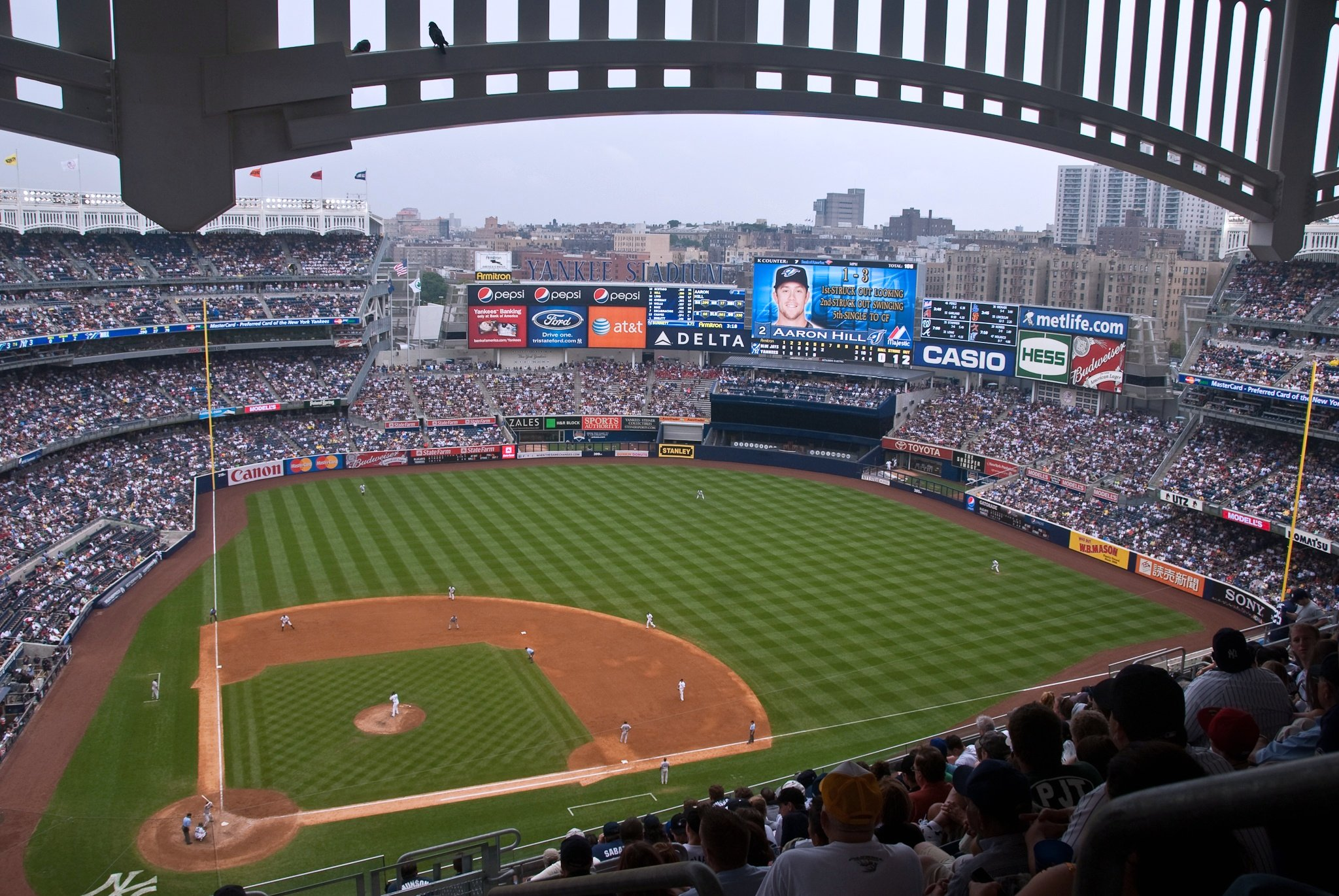 The view from section 418 at New Yankee Stadium